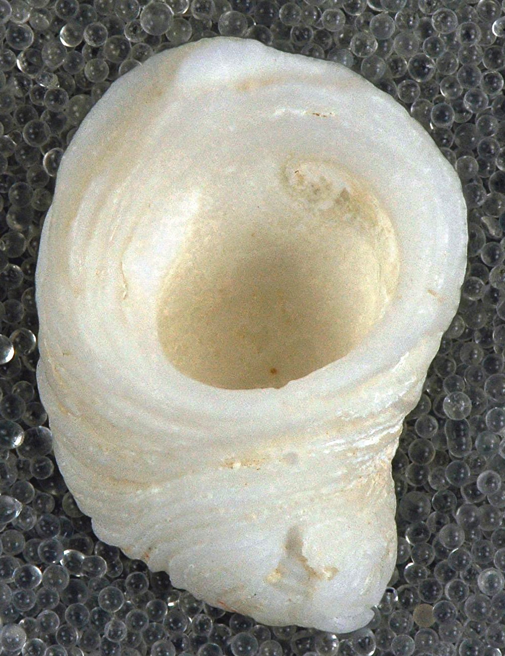 Hipponix antiquatus (Linnaeus, 1767) - apertural view of a white hoof snail shell, 1.55 cm long. Anterior to the top & posterior to the bottom. Family Hipponicidae - the hoof snails are hard substrate encrusters in shallow-water, high-energy marine environments.